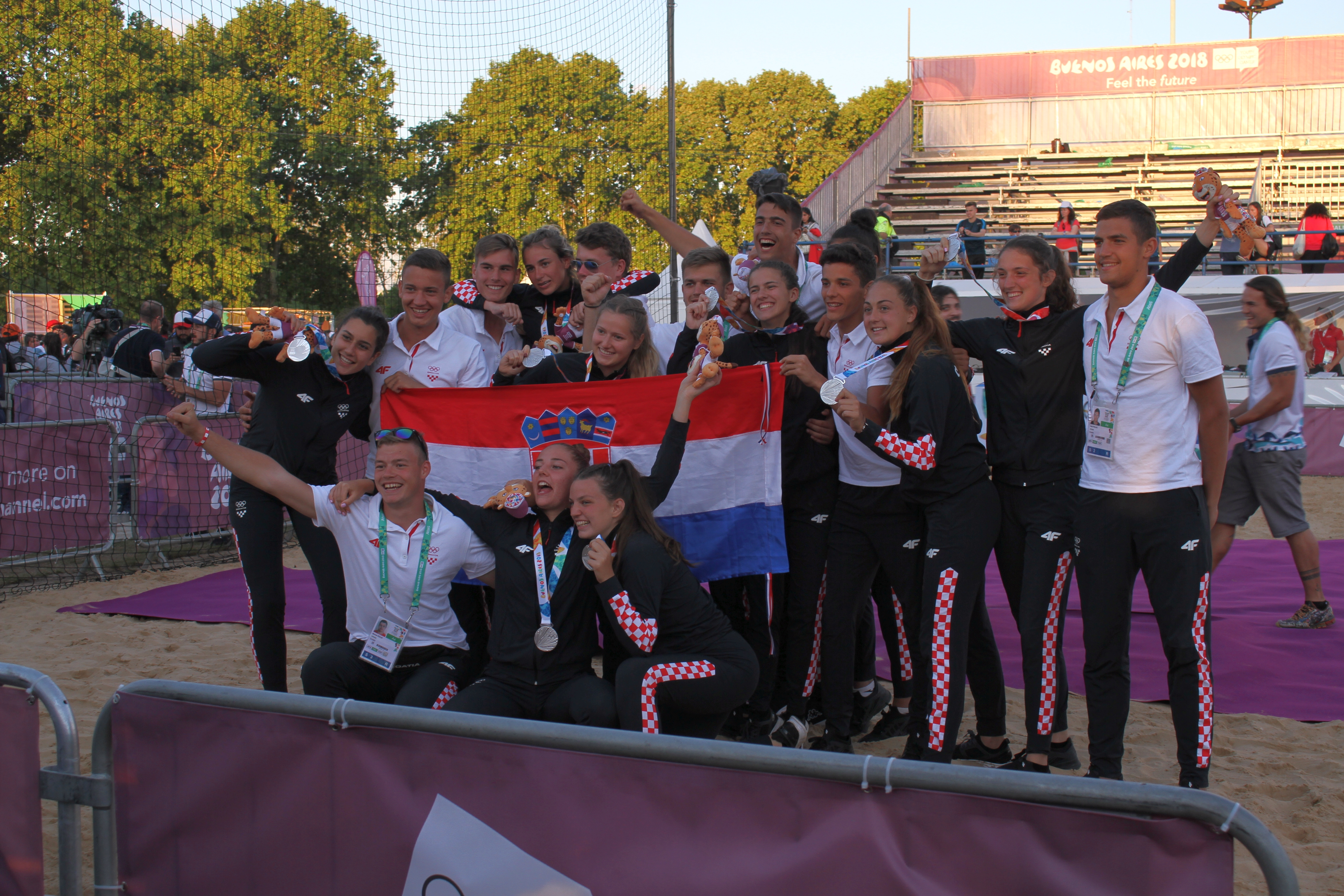 Beach handball at the 2018 Summer Youth Olympics in Buenos Aires at 13 October 2018 – Medal Ceremonies